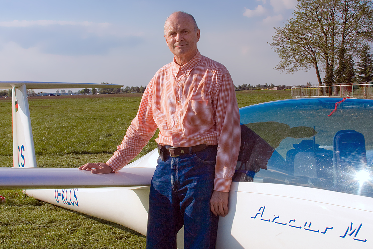 Picture was taken after a glider training flights Arcus M